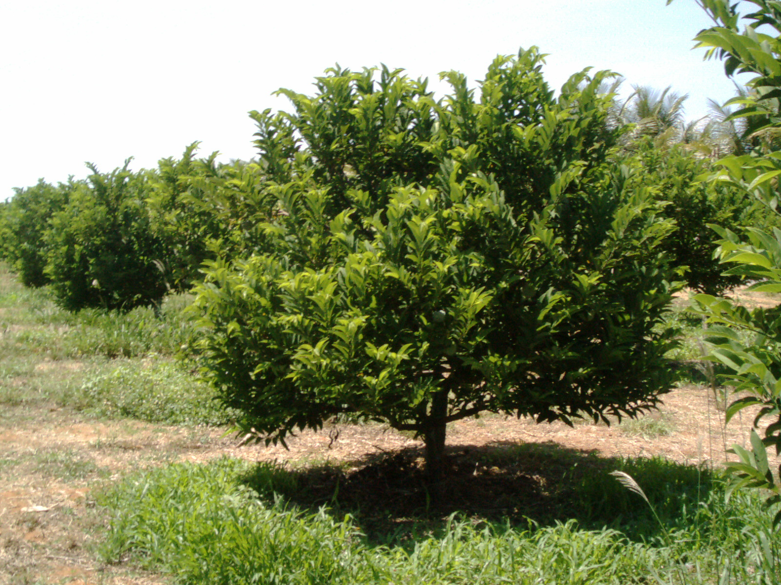 Sugar-apple plantation, Bahia, Brazil